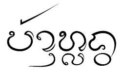 Lanna – Ban Luang is a tambon (subdistrict) of Chom Thong District, in Chiang Mai Province. Ban Luang is also a tambon (subdistrict) of Mae Ai District, in Chiang Mai Province. Ban Luang is also a amphoe (district) in Nan Province